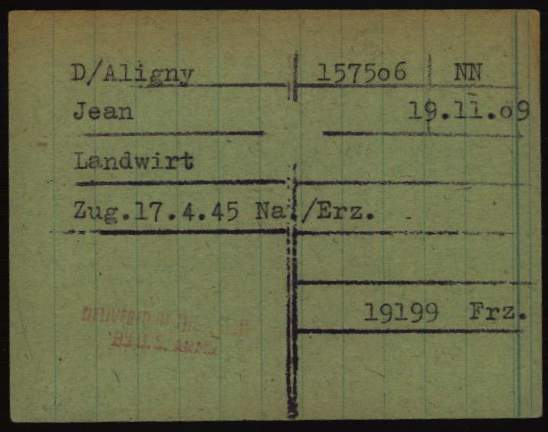 Registration card of Jean d'Aligny as a prisoner at Dachau Nazi Concentration Camp. “NN” (top right corner) identifies a prisoner under “Nacht und Nebel” directive. Date on left side of the card if date of arrival from Natzweiler Concentration Camp (sub-camp Erzingen).